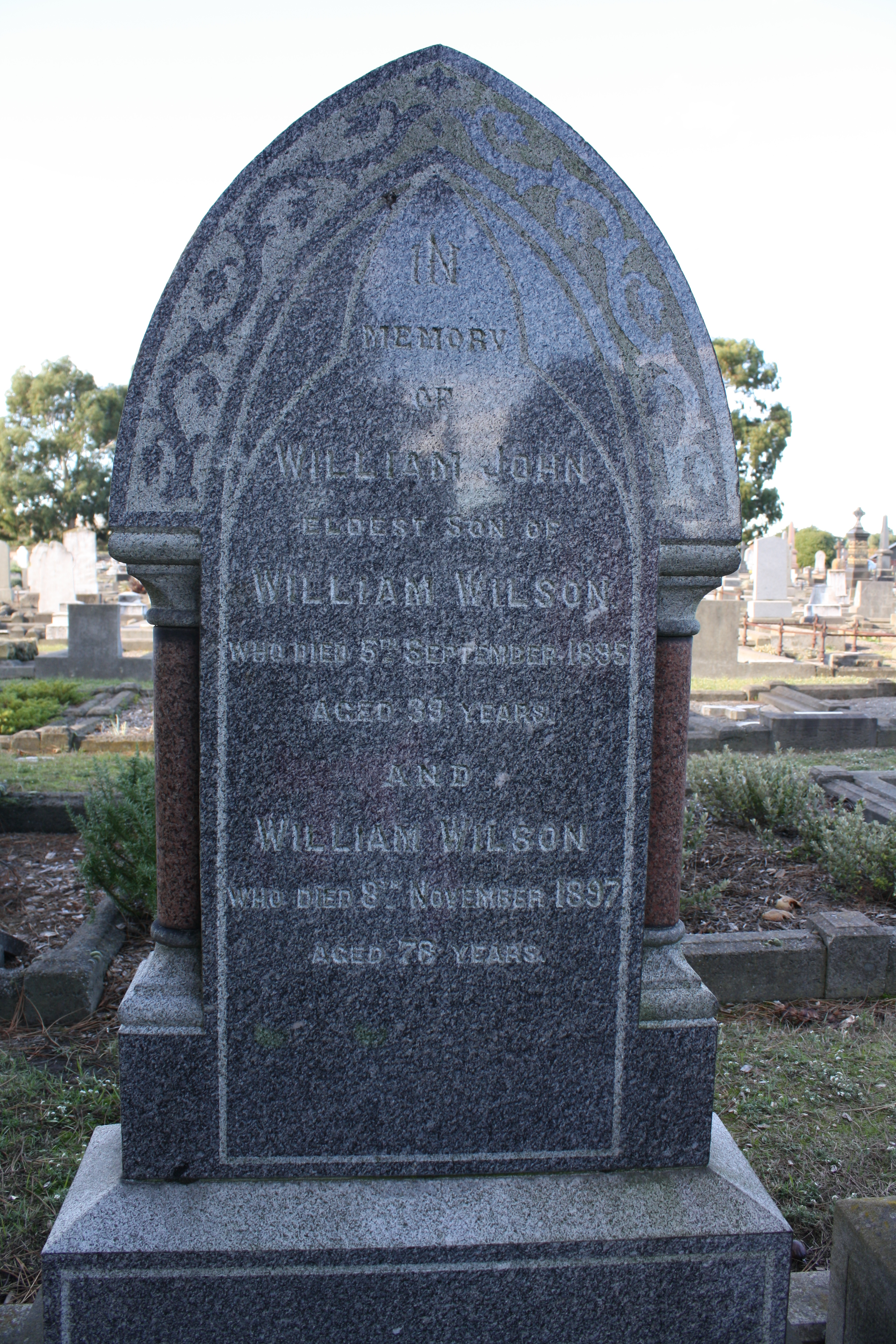 Headstone in Linwood cemetery: In memory of William John eldest son of William Wilson who died 5th September 1895 Aged 39 years And William Wilson who died 8th November 1897 Aged 78 years